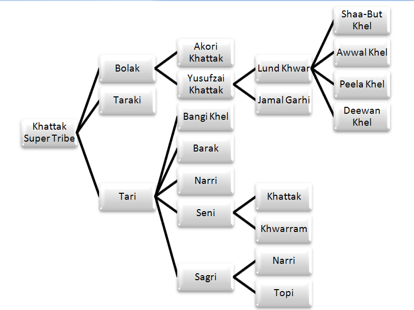 Khattak family Tree. The Khattak super tribe and its sub tribes. Reference Material: The Pathans 55O B.C.-A.D. 1957 By Sir Olaf Caroe History of the Afghans by Bernhard Dorn History of the Afghans Original by Neamet Ullah (active 1613-30) in the court of the Mughal emperor Jahangir (1569-1627) Tareekh i Farishta History of the Afghans edition X by Fut’h Khan in 1718 The Works of the Pashto Academy Peshawar University and The Pashto Dept. Islamia College Peshawar through countless publications, both online and offline, and may writers including Dr. Yusafzai, much of which you can find at History of Kohat -Gazetteer of the Kohat District History of Peshawar -Gazetteer of the Peshawar District Afghan Poetry: Selections from the poems of Khush Hal Khan Khattak., Biddulph, C.D., Saeed Book Bank, Peshawar, 1983 (reprint of 1890 ed.) A Grammer Of The Pukhto, Pushto: Or Language Of The Afghans, Raverty, H.G., London, 1860 Poems from the Diwan of Khushâl Khân Khattak, MacKenzie, D.N, London, Allen & Unwin, 1965 Notes on the Tarikh-e-Murassa, Plowden, Maj. Settlement Report of Bannu, Thorburn